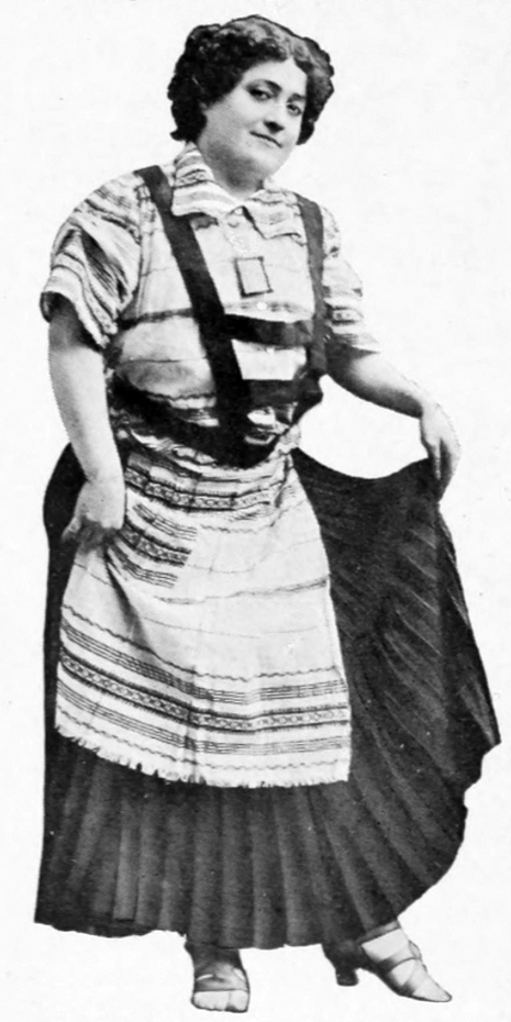 The soprano Luisa Tetrazzini as Dinorah in Meyerbeer's opera Le pardon de Ploërmel